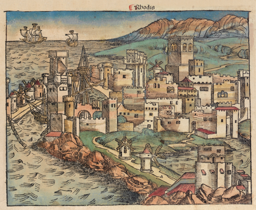 Rhodes. Woodcut from the Nuremberg Chronicle